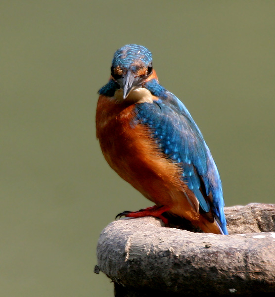 Common Kingfisher Alcedo atthis in Kolkata, West Bengal, India.